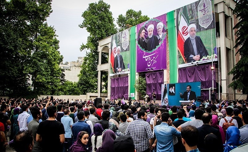 Iranian presidential election debates, 2017